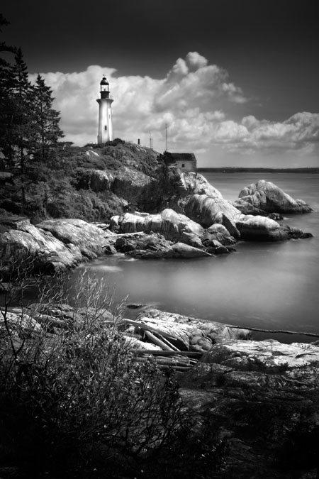 Featured in the October 2007 issue of Digital Photo magazine. ( Daytime long exposure. This is Point Atkinson in West Vancouver, BC. (This is not HDR)Beacon of hope : Featured in the October 2007 issue of Digital Photo magazine. ( Daytime long exposure.